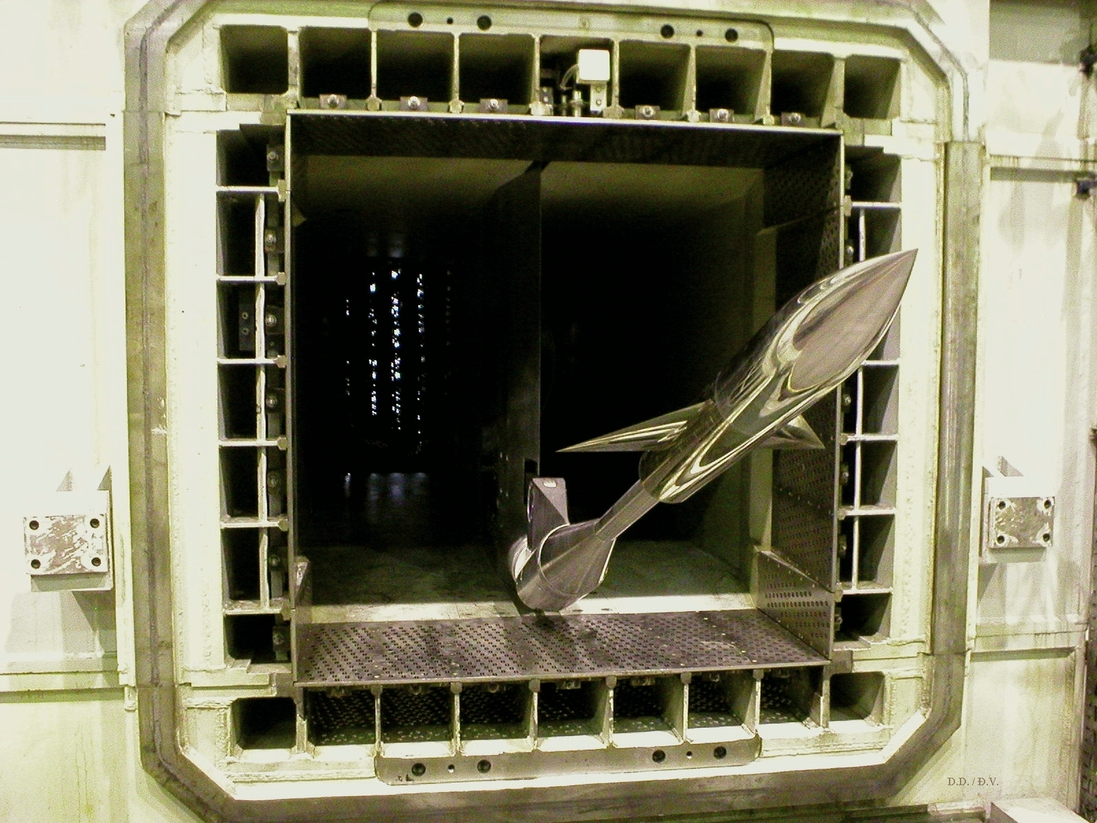 AGARD-B standard wind tunnel model on the tail sting model support in the T-38 wind tunnel